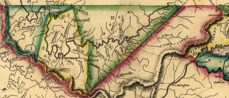 Tennessee Districts as they appeared in 1817, based on an Atlas created by Samuel Lewis in 1817. It shows the following: Tennessee, Davidson, and Sumner Districts, as well as surrounding areas of Tennessee and the Kentucky border.